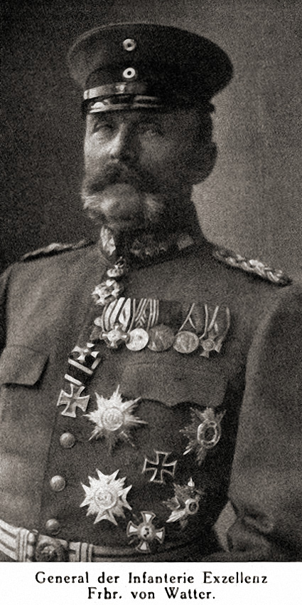 prussain general Theodor von Watter